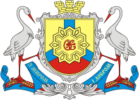 Large coat of arms of Kirovohrad